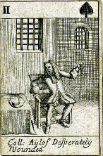 Commemorative playing card showing rebel leader John Ayloffe, after Argyll's Rebellion / Monmouth Rebellion (1685)